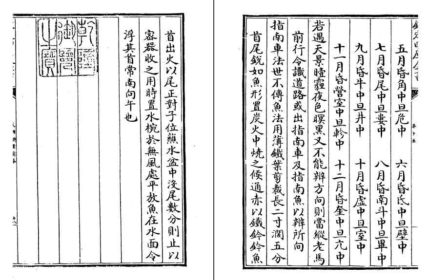 paragraph about water compass in Wujing zongyao part 1, vol 15 of 1044